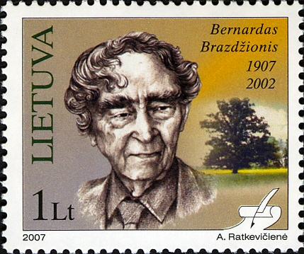 Stamps of Lithuania, 2007